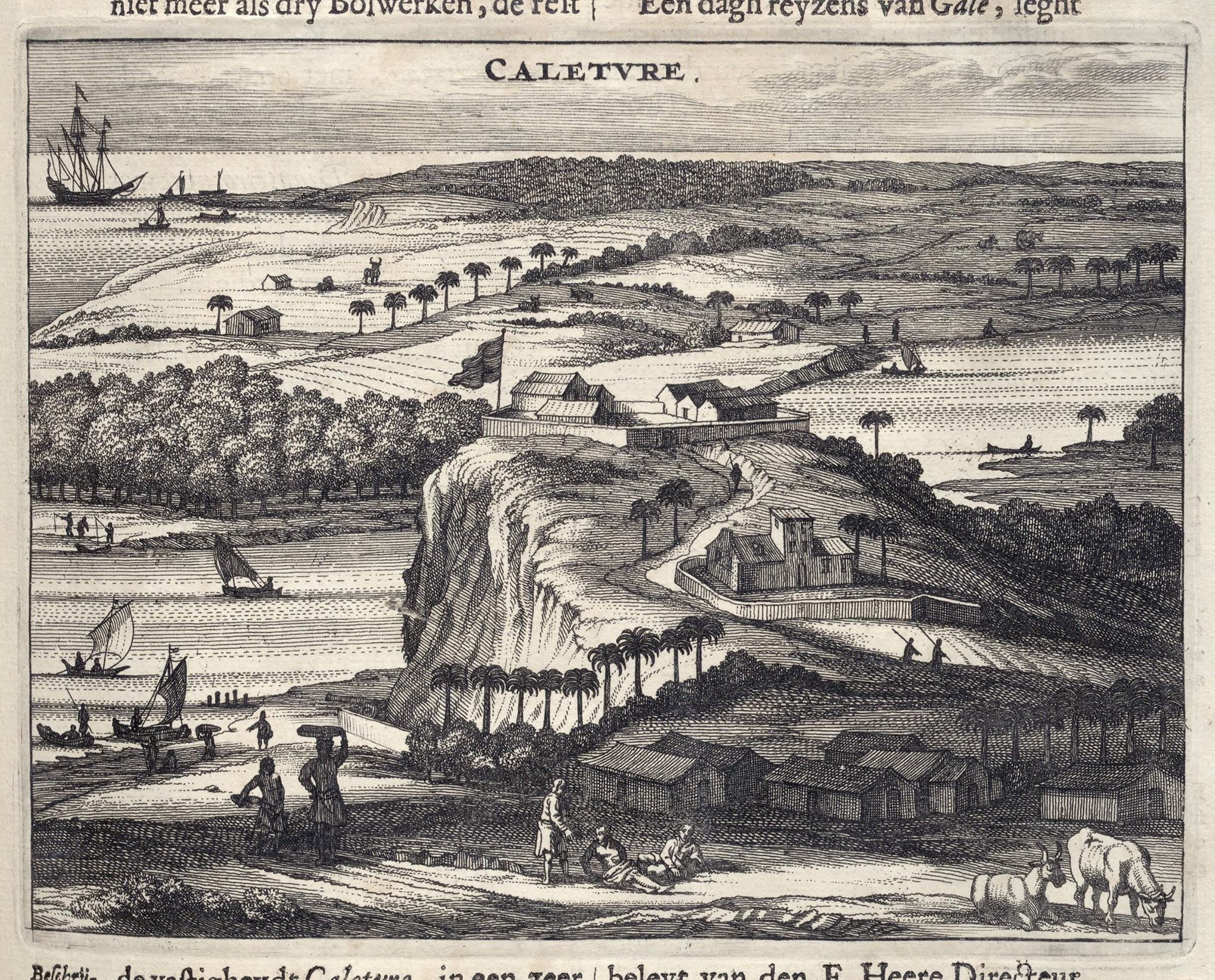 Bird's eye view of Caleture. Caleture lay at the mouth of the Kalu River. The fort was key in controlling the cinnamon trade